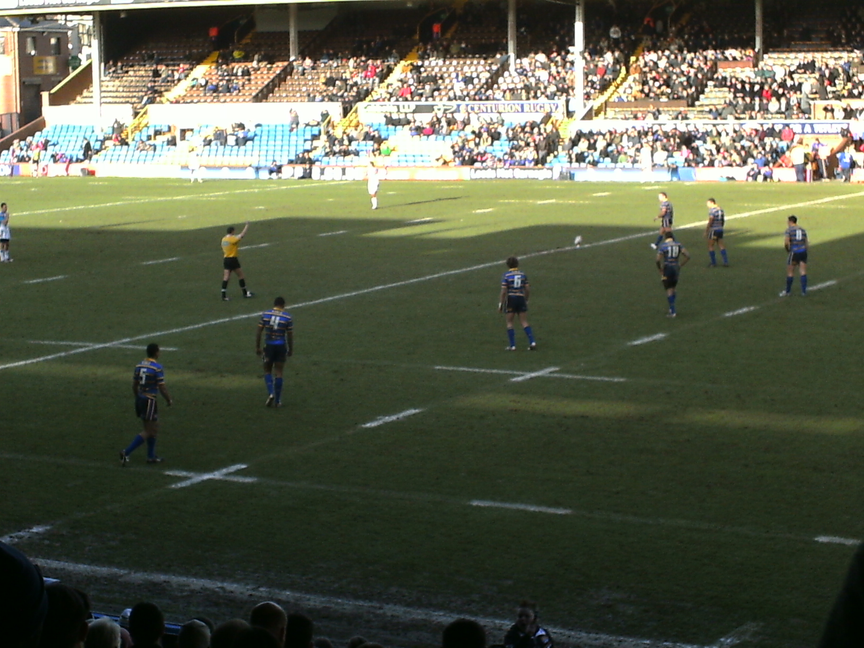 Leeds Rhinos side for the 2008 traditional boxing day friendly against Wakefield Trinity Wildcats, the side is made out mainly second team and acadamy players.